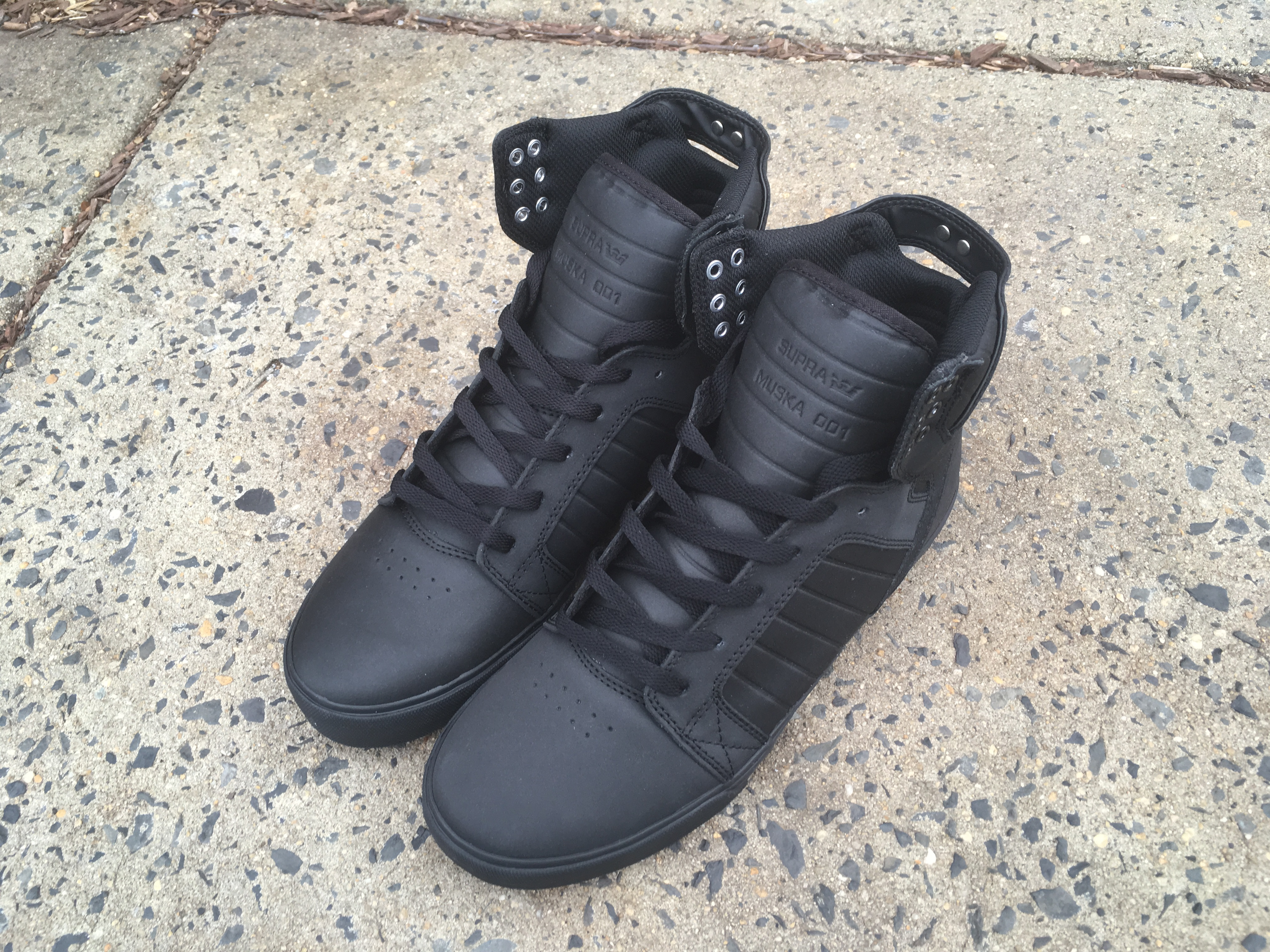 A pair of Supra Skytop Red Carpet Edition shoes